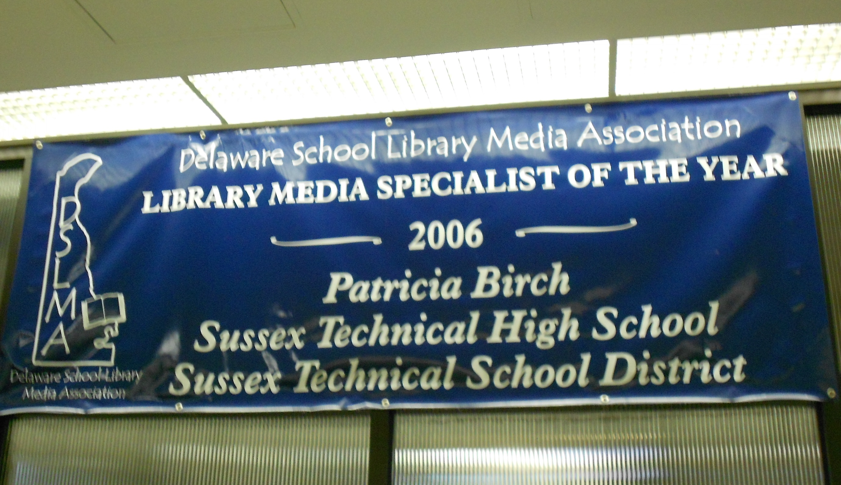 Banner awarded in 2006 at the Sussex Tech High School for Library Media Specialist of the Year by the Delaware School Library Media Association.